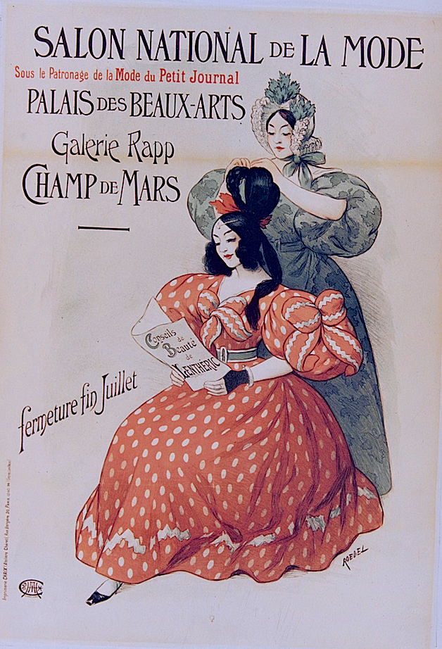 Lithographic poster for Salon national de la Mode, Galerie Rapp (Paris), Soins de Beauté Lenthéric — designed by Auguste Roedel, printed by Chaix.